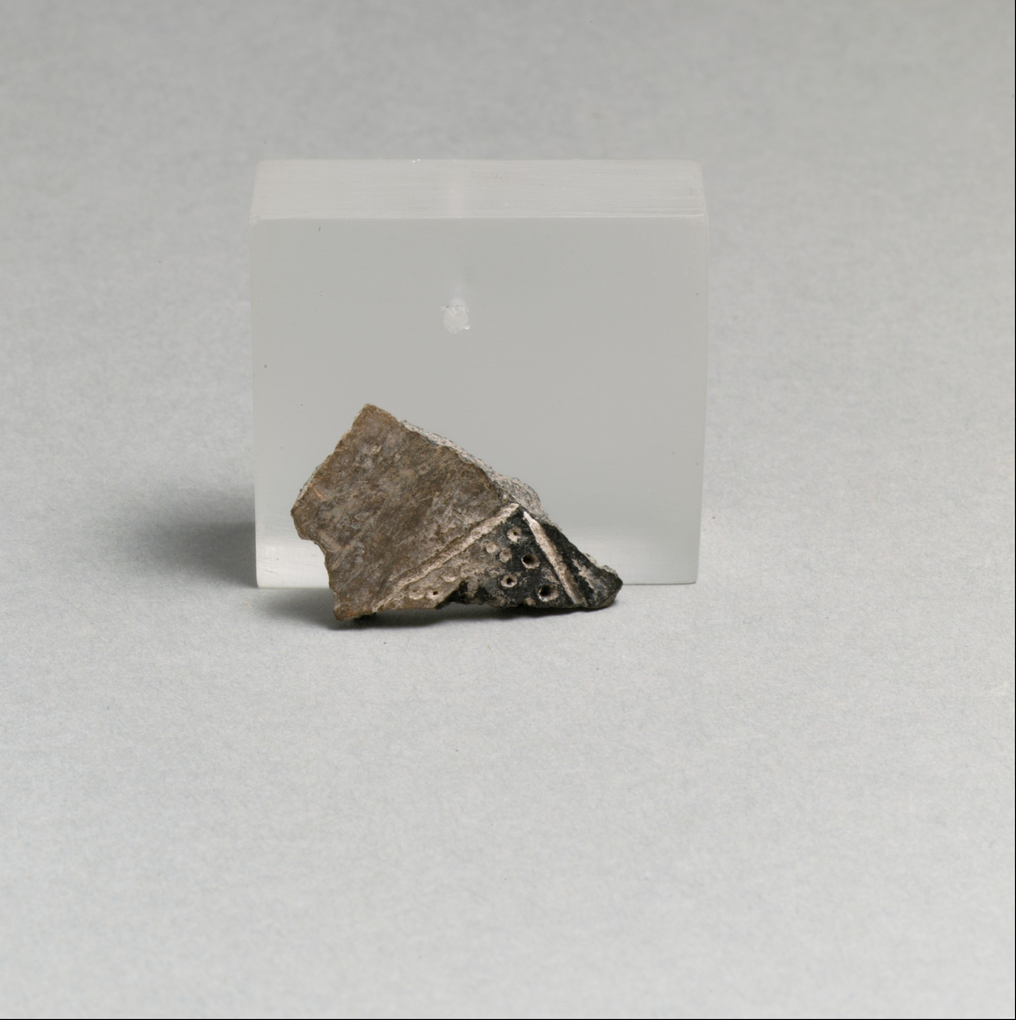 Neolithic, Gonia; Vase fragments; Vases